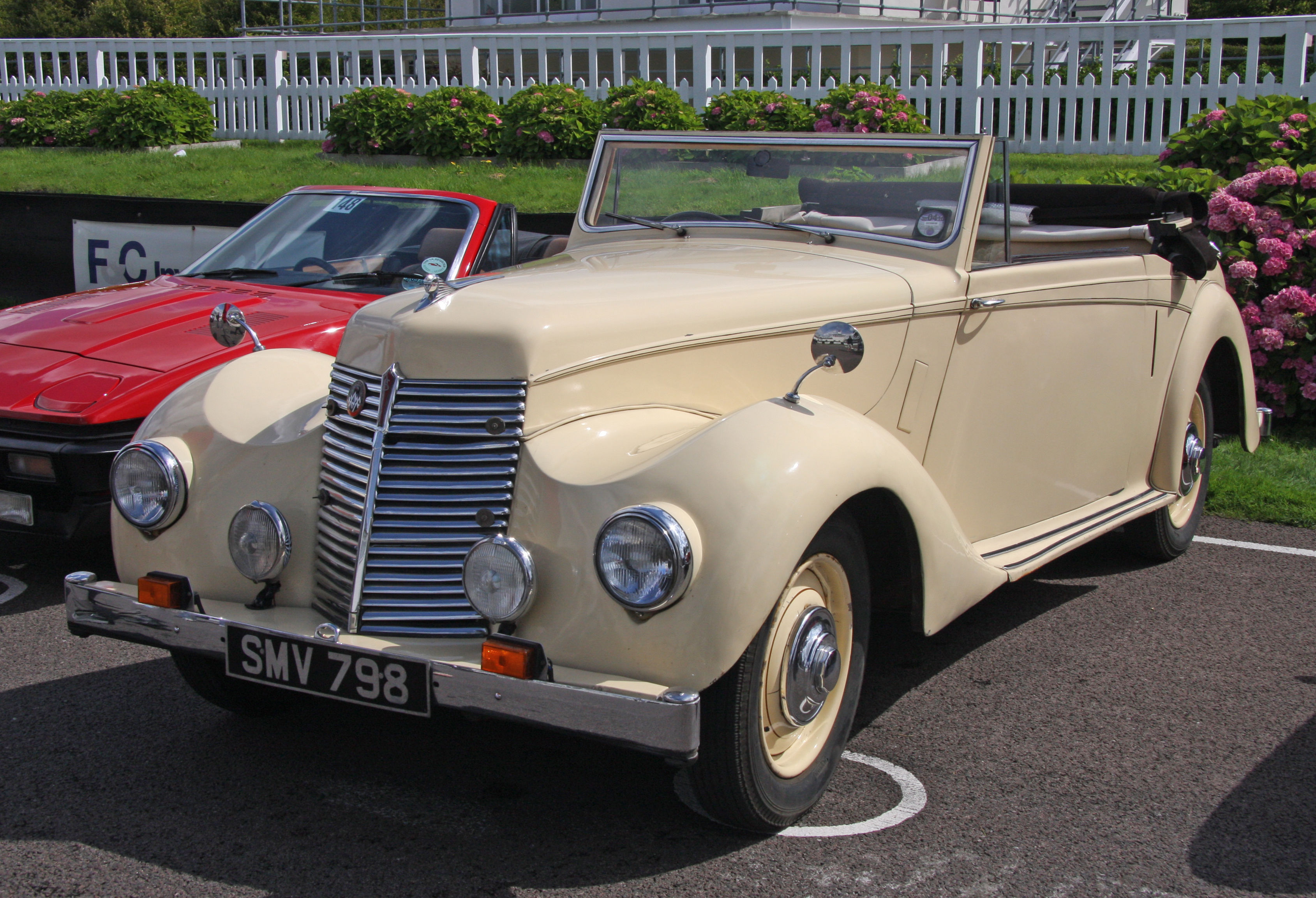 Armstrong Siddeley (DVLA) 2300cc, manf. 1947